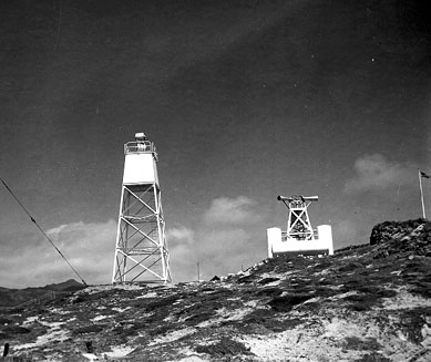 Public Domain statement here; THE POINT ARGUELLO SKELETON TOWER